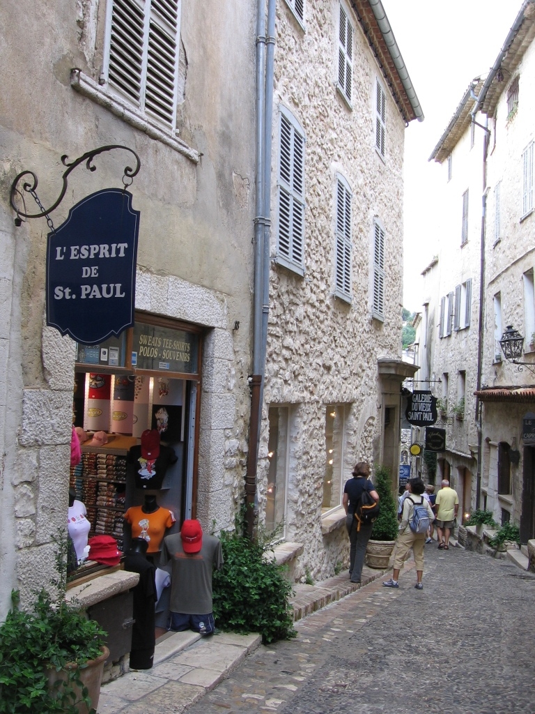 one of small lanes in St.-Paul-de-Vence, France